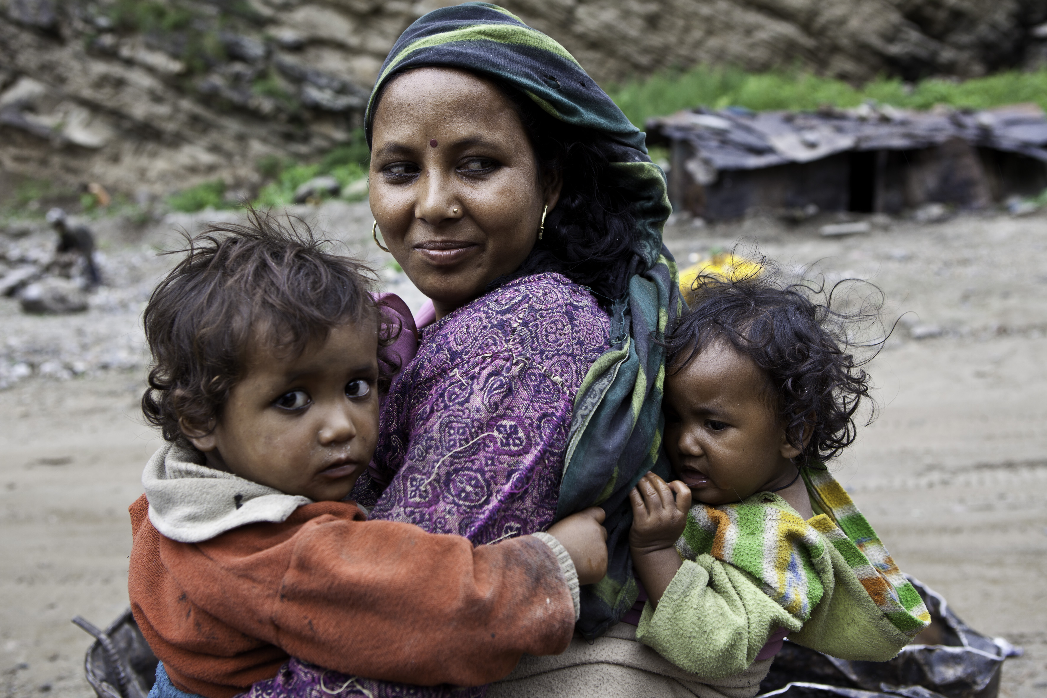 A woman and her children in a rural area of the northern Indian subcontinent